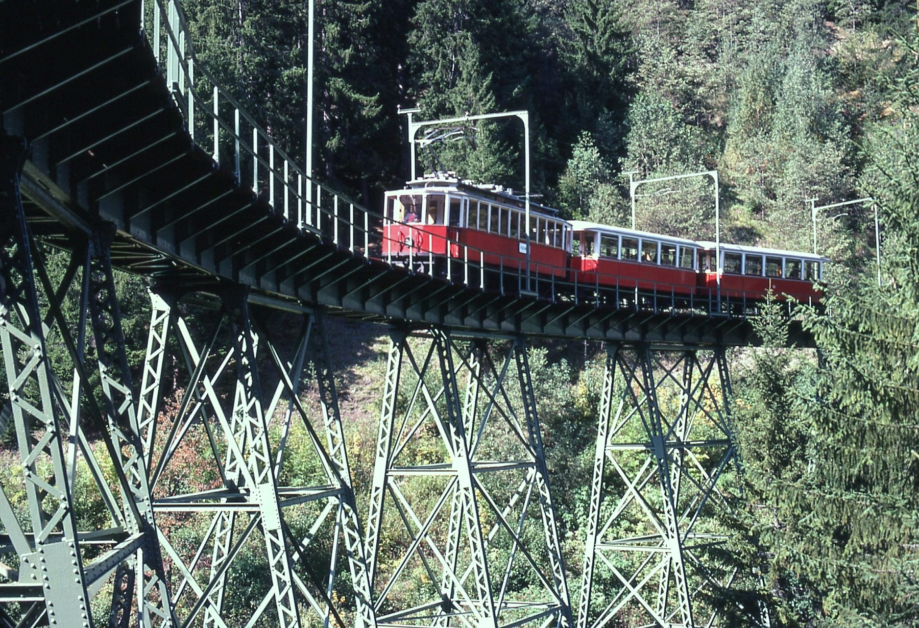 Stubaitalbahn train during the AC current era on the viaduct at Kreith.